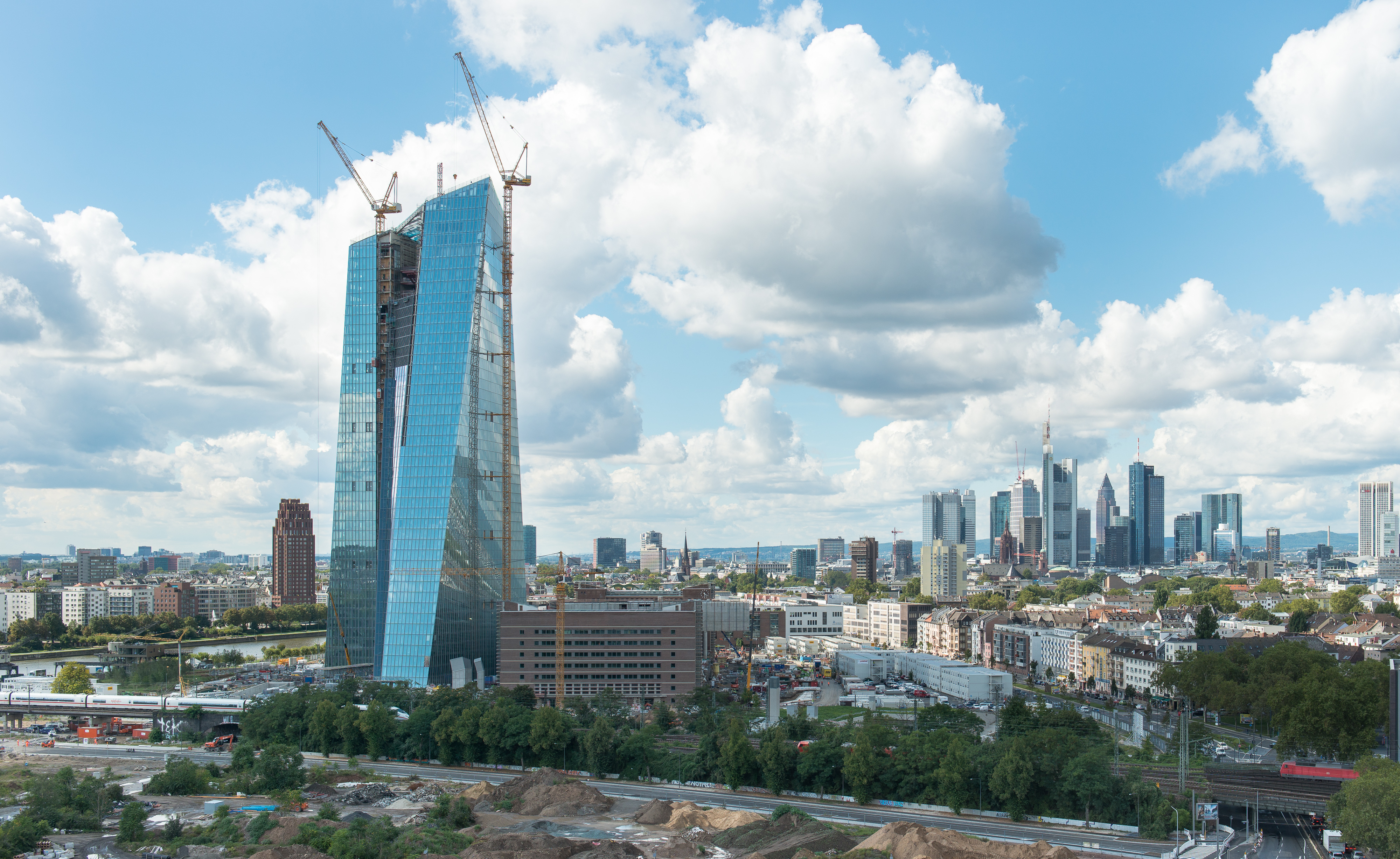 ECB construction site with the twin tower and the historic market hall with railway trail and the Main river in the foreground. Some of the Frankfurt high-rises can be seen in the background (September 2013)